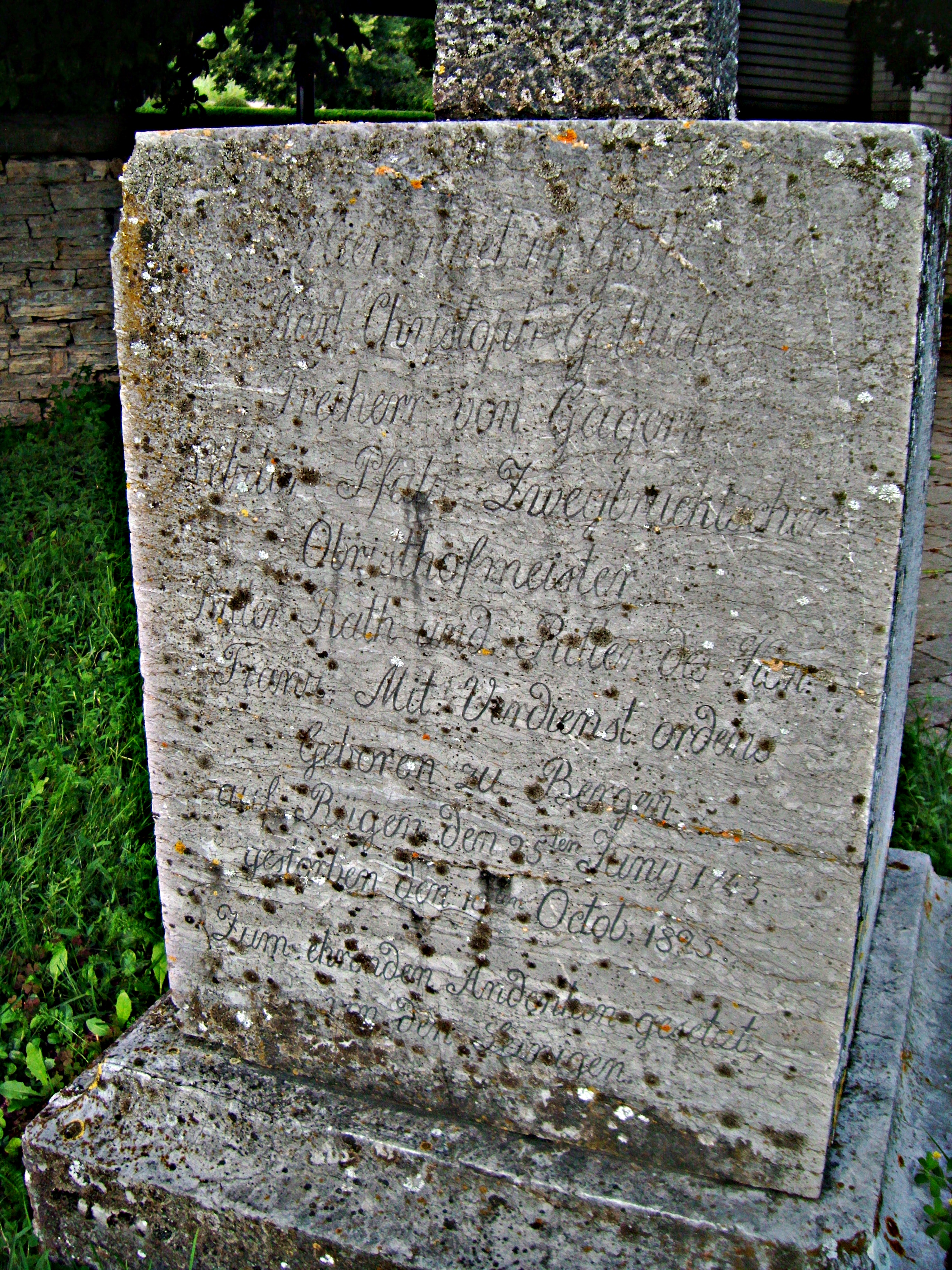 Grabstein Carl Christoph Gottlieb von Gagern (1743–1825), Friedhof Gauersheim